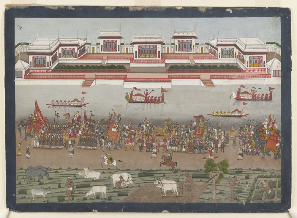 Procession of Nawab Shuja' ud-Daula at Faizabad. From an album of 18th century Indian watercolours. The foreground shows farming activities including milking of cows by hand and ploughing. Behind that is the procession with people mounted on horses and on elephants. Behind that, there is a river with four rowboats. The scene is overlooked by a large white palace on the other side of the river. Shelfmark: MS. Douce Or. a.3. folio 4 recto